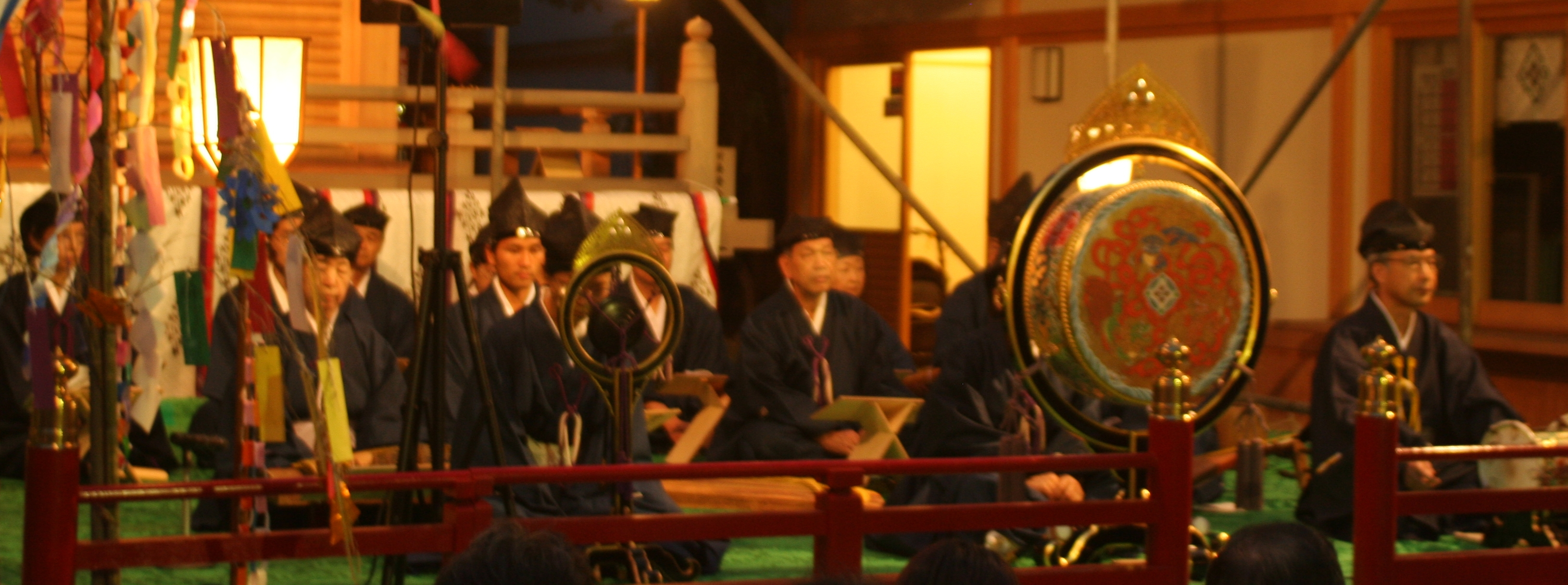 Gagaku Performance at the Tanabata Matsuri at morooka kumano jinja ( 師岡熊野神社 ) in Okurayama, Yokohama, Kanagawa, Japan. Sorry for poor quality